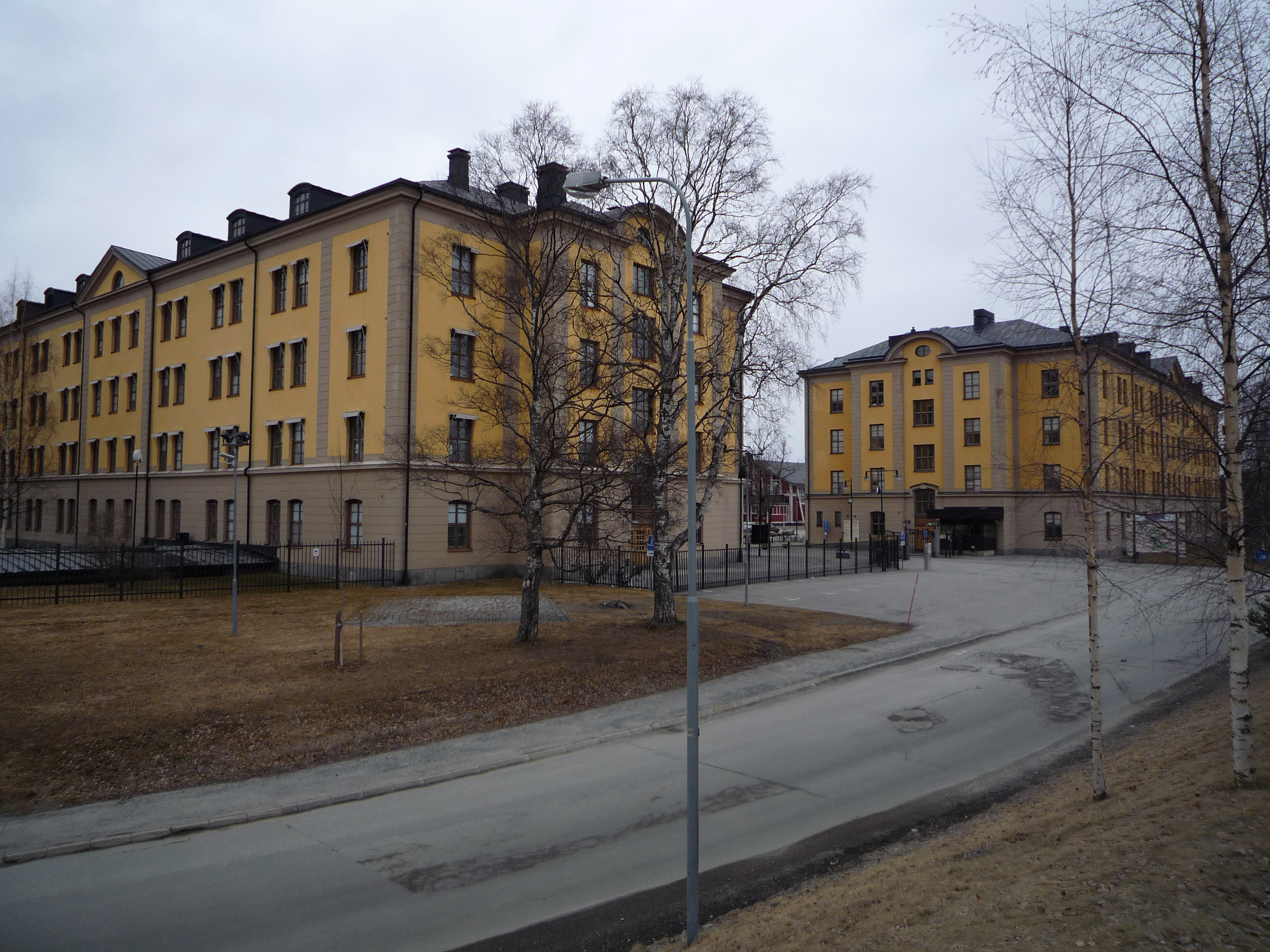 Umestan, building ?, from southeast